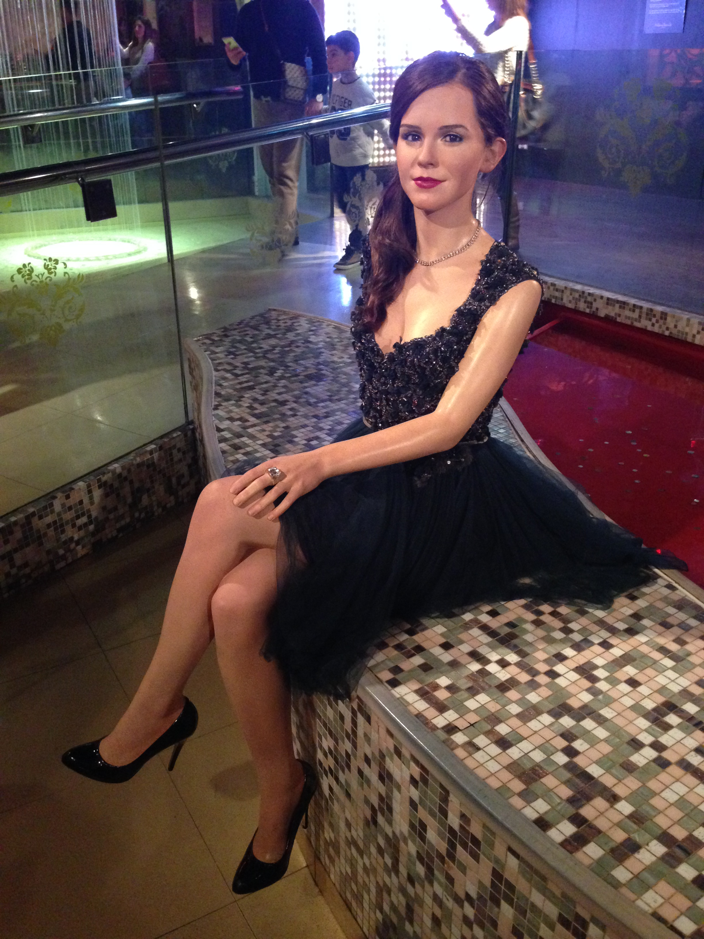 Emma Watson at Madame Tussauds London - November 1st, 2016